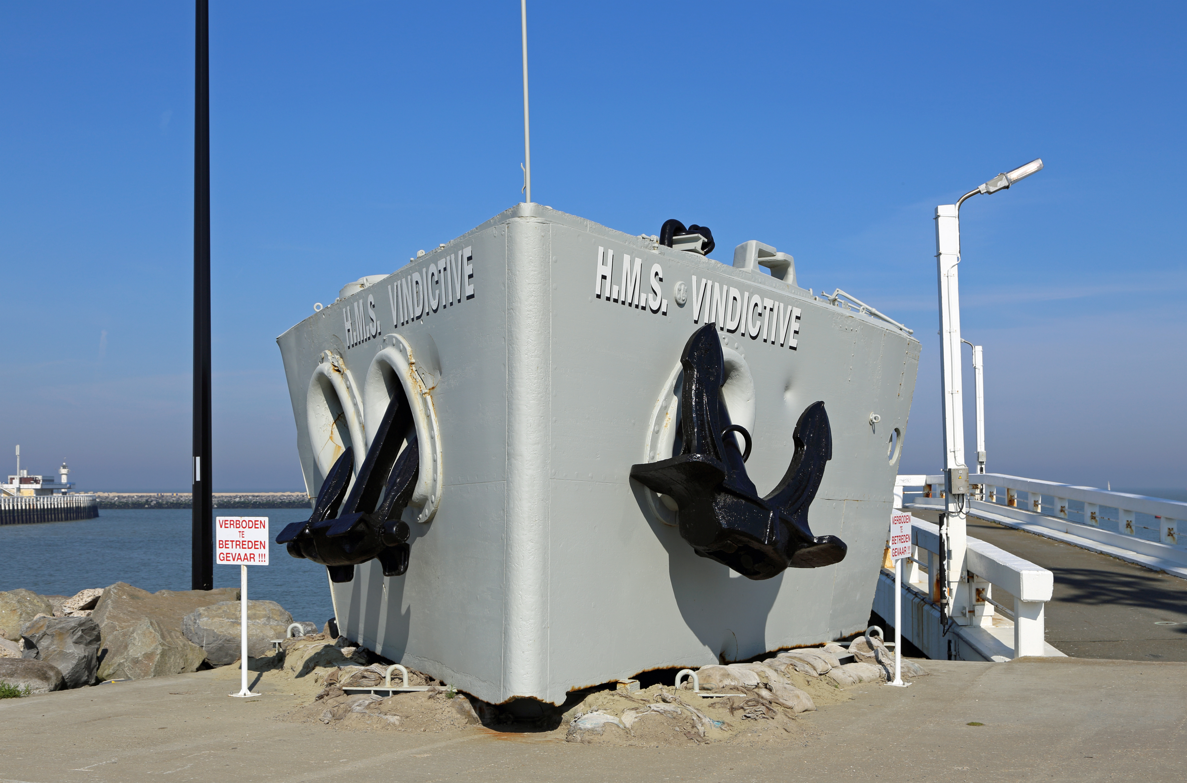 Stem of H.M.S. Vindictive as WW1 memorial in the Staketselstraat in Ostend (Belgium). Later on in 2014 the memorial was moved to an new place, on the eastern jetty of Ostend harbour.